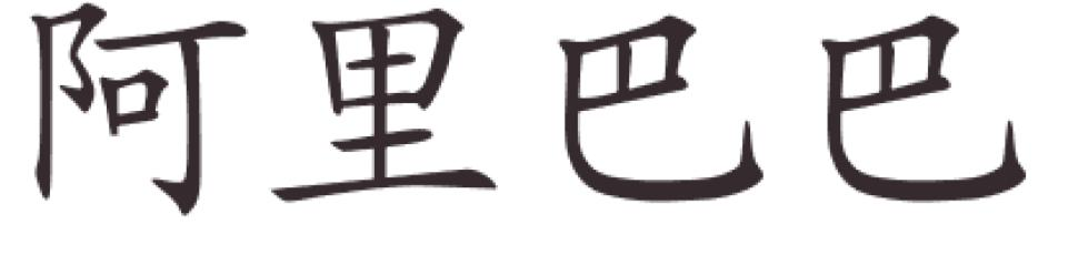 Alibaba in Calligraphical Chinese Characters